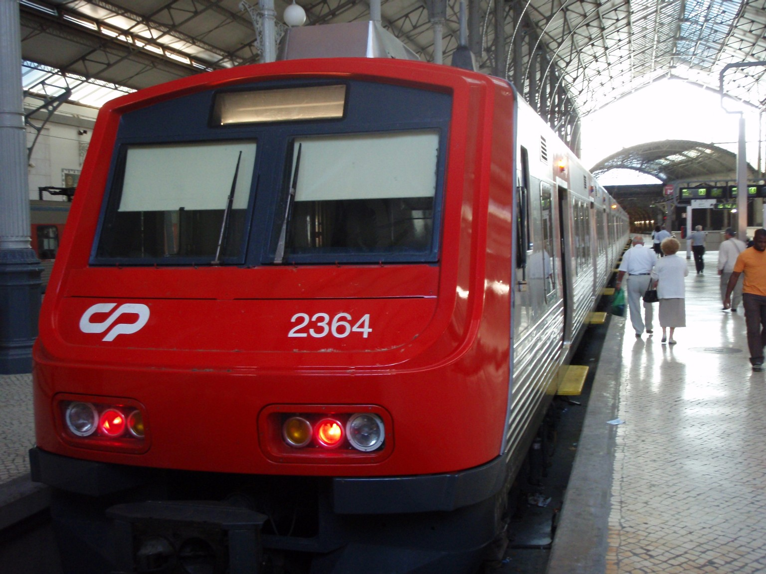 Train in Rossio train station, Portugal.